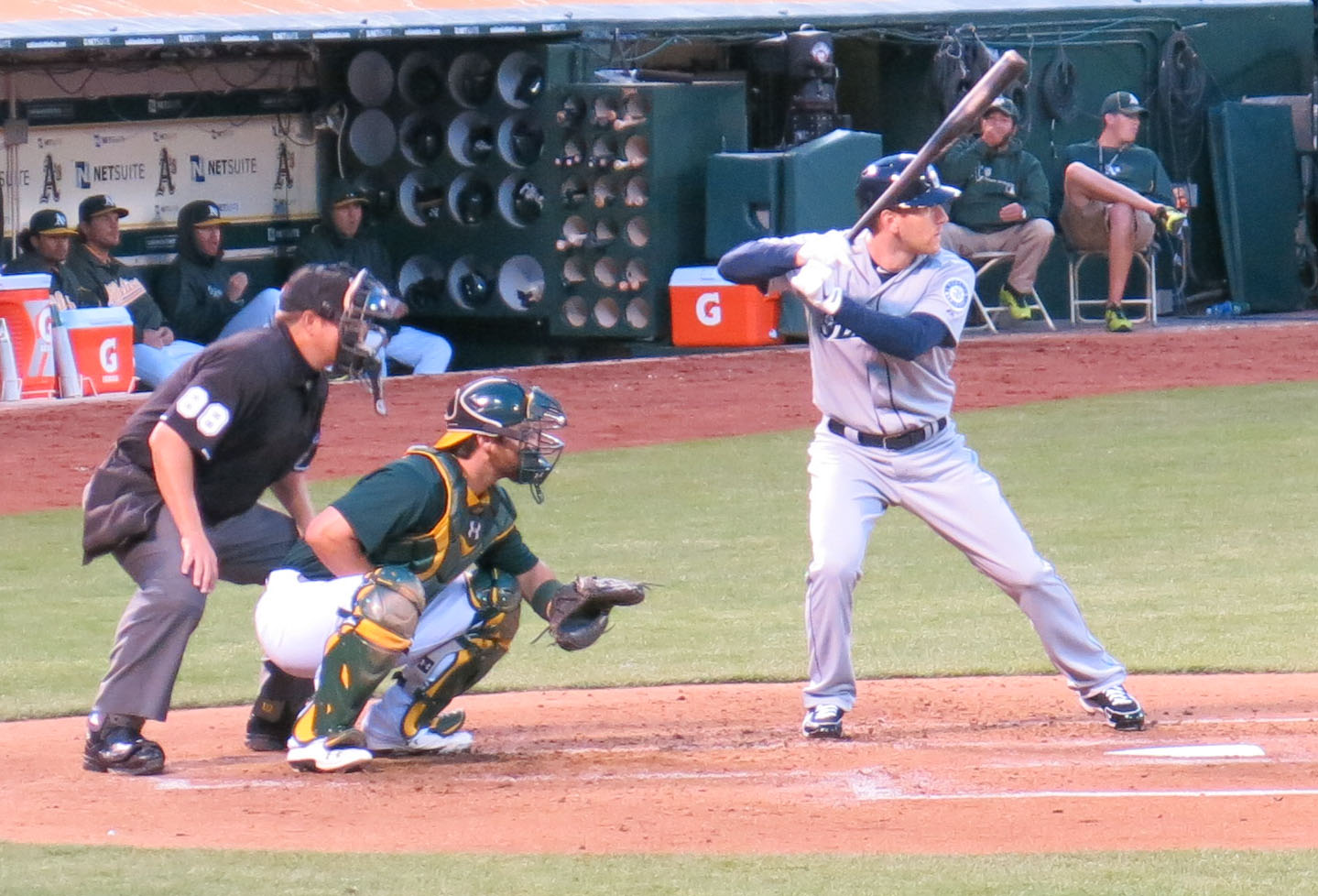 Seattle Mariners outfielder Jason Bay bats in a game against the Oakland Athletics.